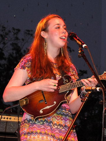 Sarah Jarosz performing at Old Settler's Music Festival - Driftwood, Texas - Photo by Ron Baker (2012).